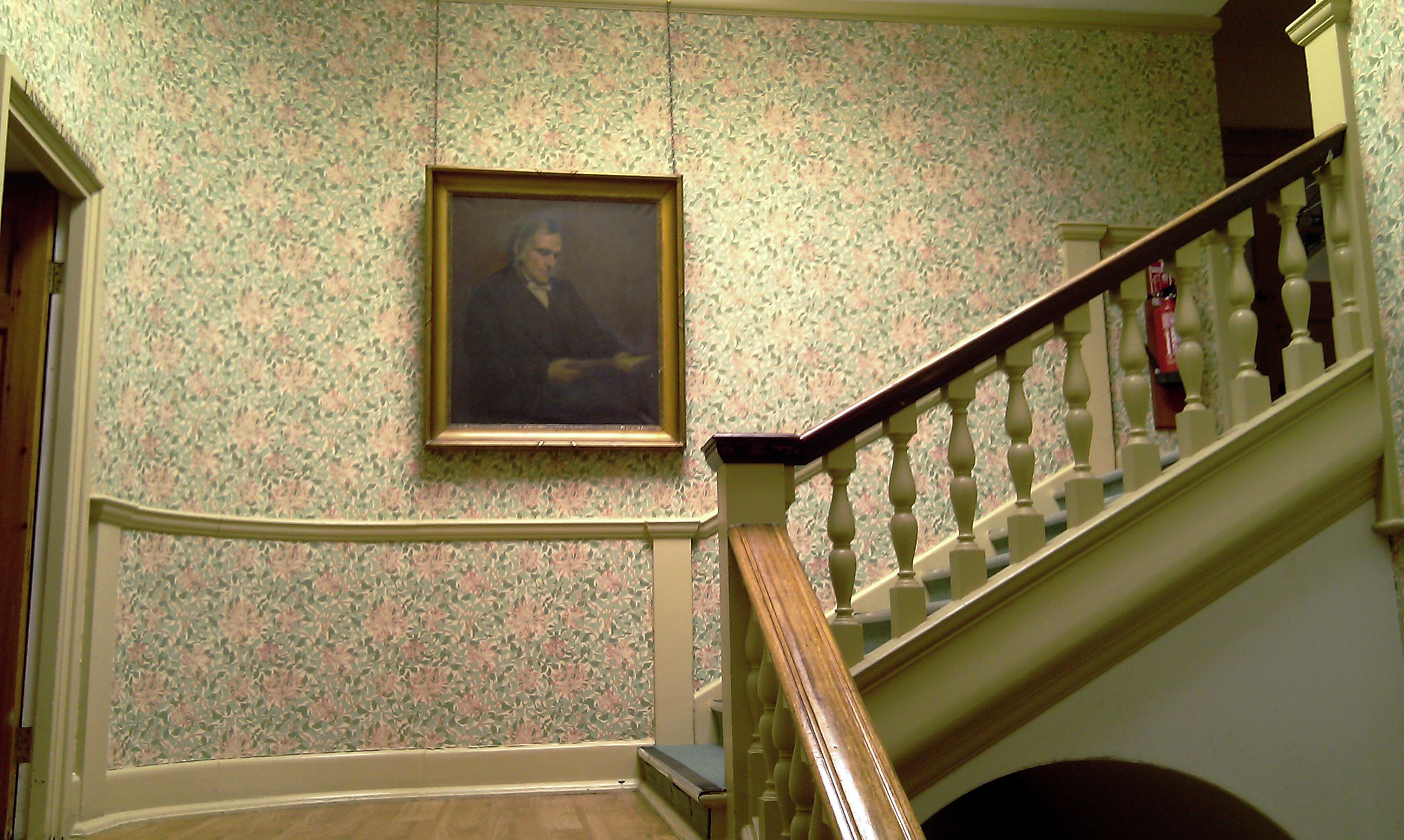 Maurice painting at Queen's College, London